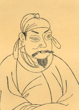 A protrait of Li Shiji a general of Tang Dynasty